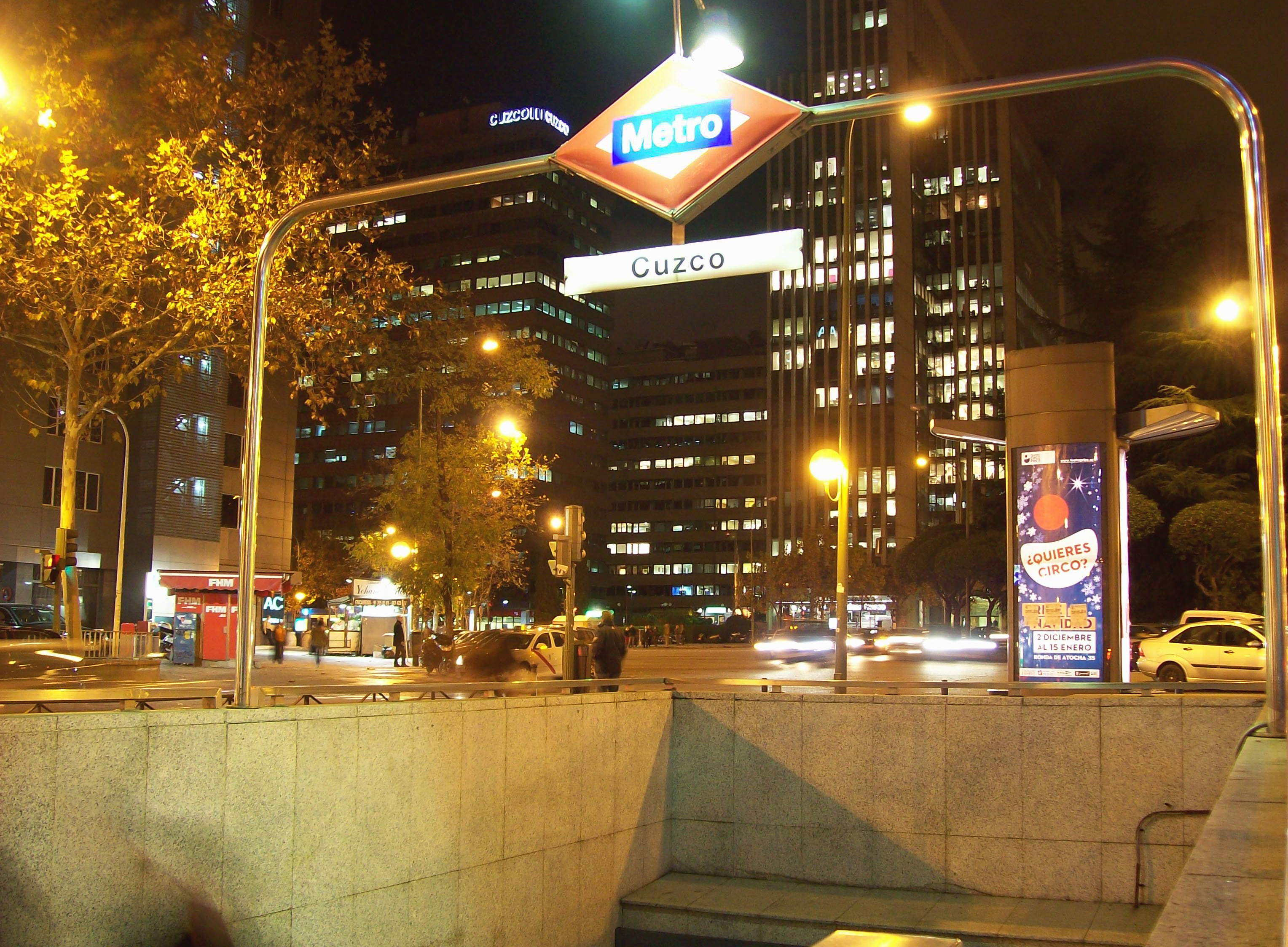 Entrance of Cuzco metro station in Madrid (Spain), at Plaza de Cuzco (square) in Tetuán district.